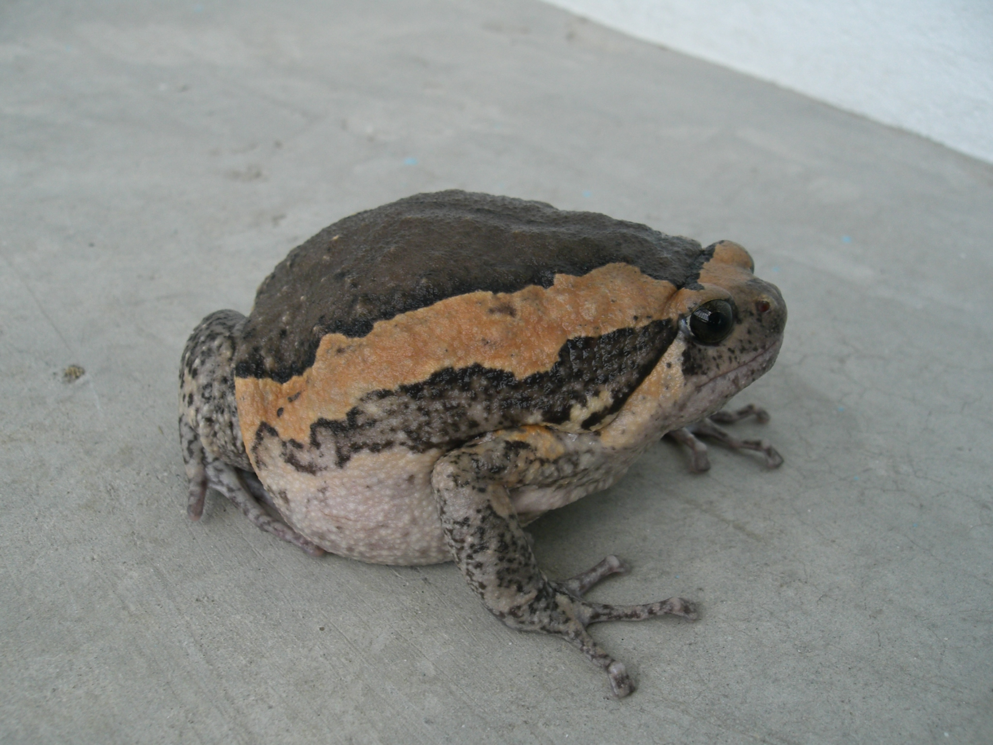 A Toad in Thailand (Kaloula pulchra)